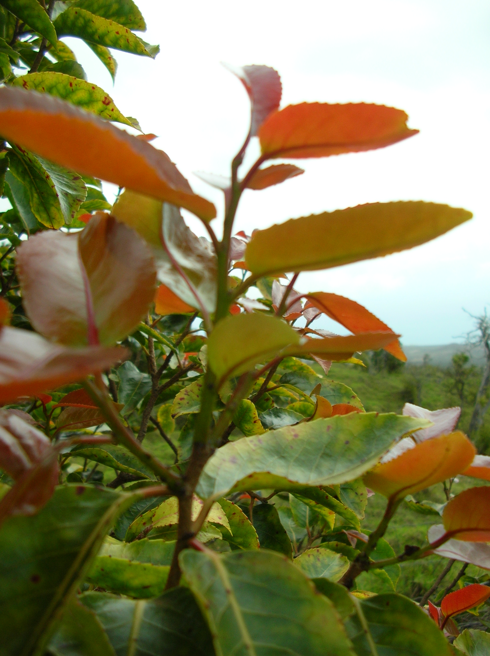 Xylosma hawaiiense (leaves). Location: Maui, Auwahi